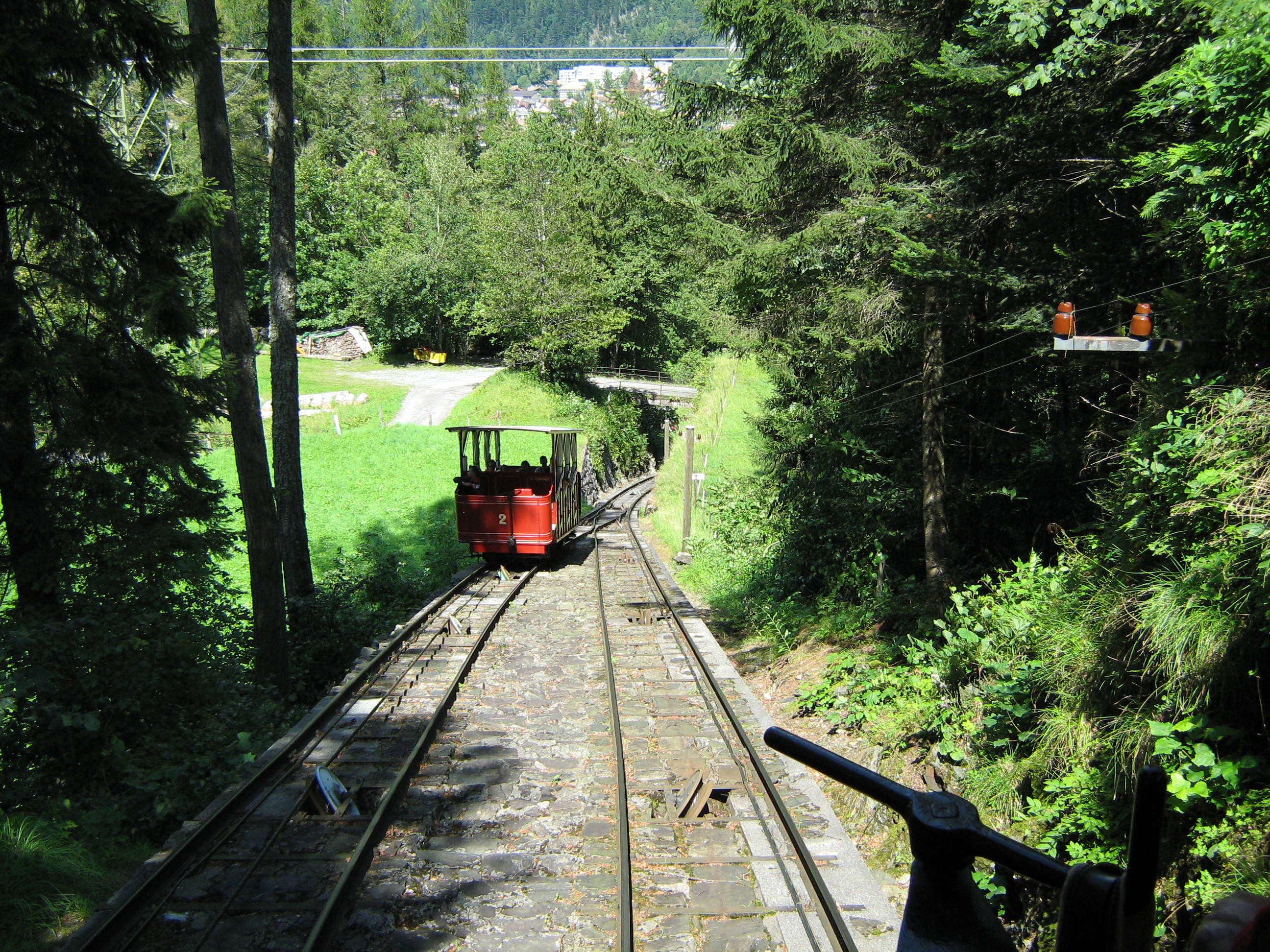 Reichenbachfall-Bahn near Meiringen, Switzerland. August 11, 2007.